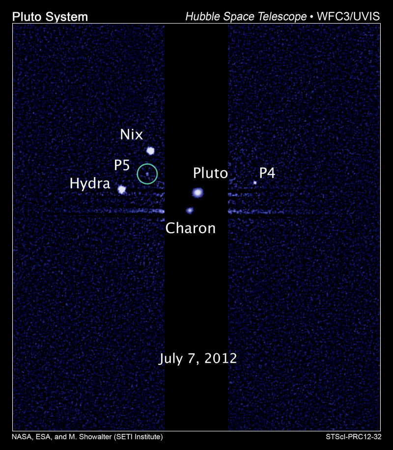 An Image of P5 (later named Styx), the newly discovered fifth moon of Pluto by the Hubble Space Telescope.